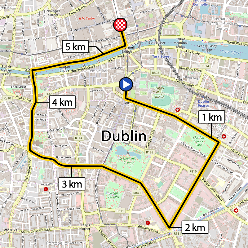 The route of the prologue stage of the 1998 Tour de France. This map may be incomplete, and may contain errors. Don't rely solely on it for navigation.